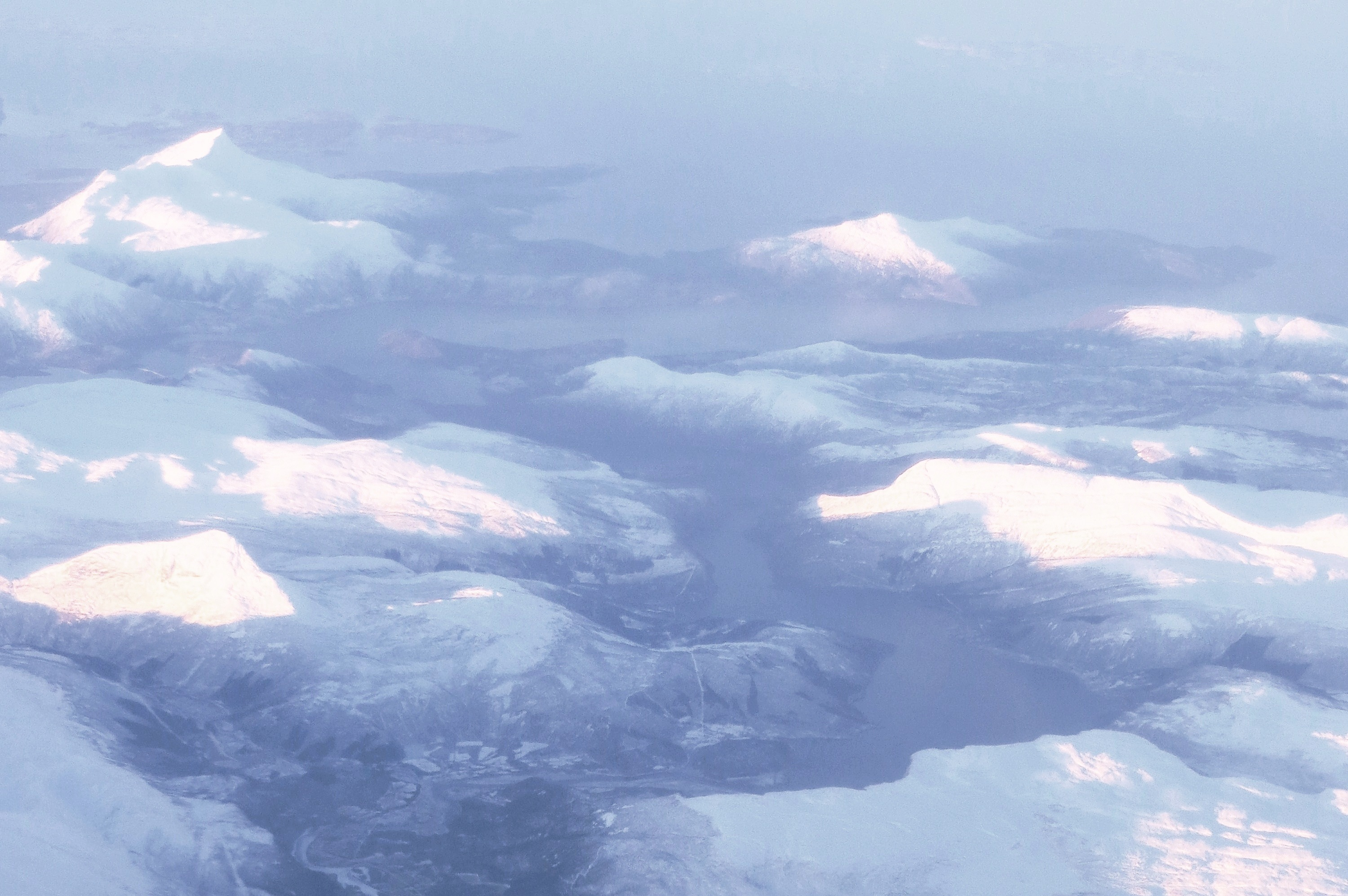 Aerial view from east toward west over Beiarn municipality, in south.central Nordland county, Norway.